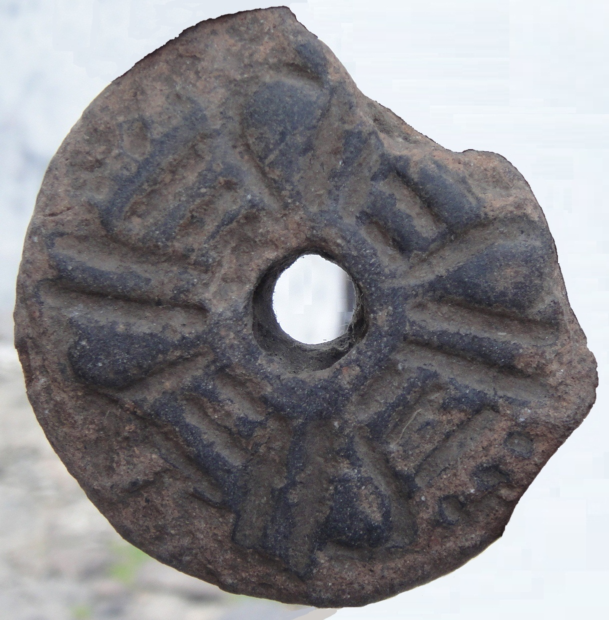 Malacate